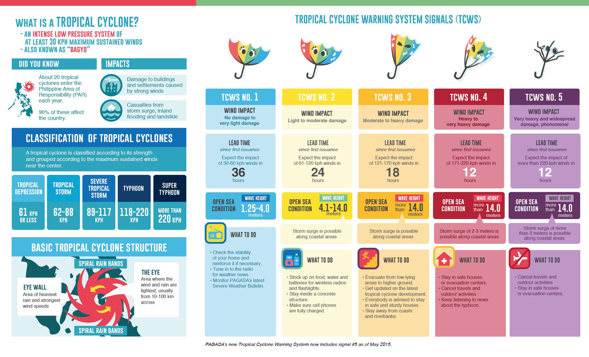 The basic information on tropical cyclones and the Philippine Tropical Cyclone Warning Signals (TCWS) by the PAGASA